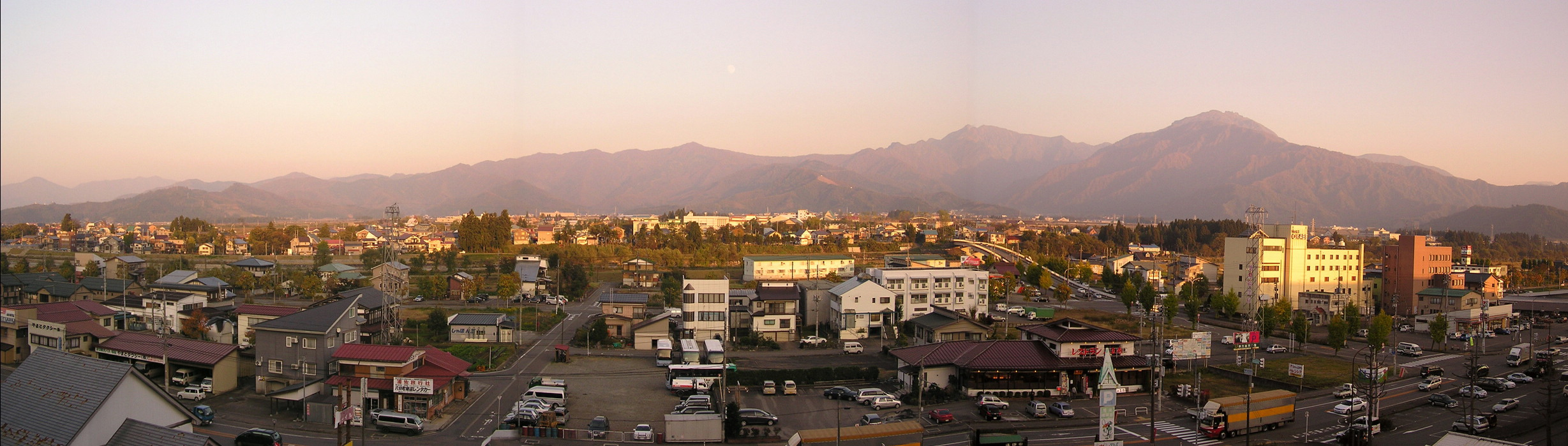 A aerial panorama of Urasa town and the Echigo-Sanzan mountains in Minamiuonuma city. Photo by: S. J. Wong